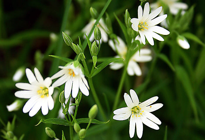 Greater Stitchwort (Stellaria holostea), "Store Økssø", Rold forest